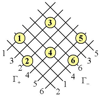 Oblique-grid